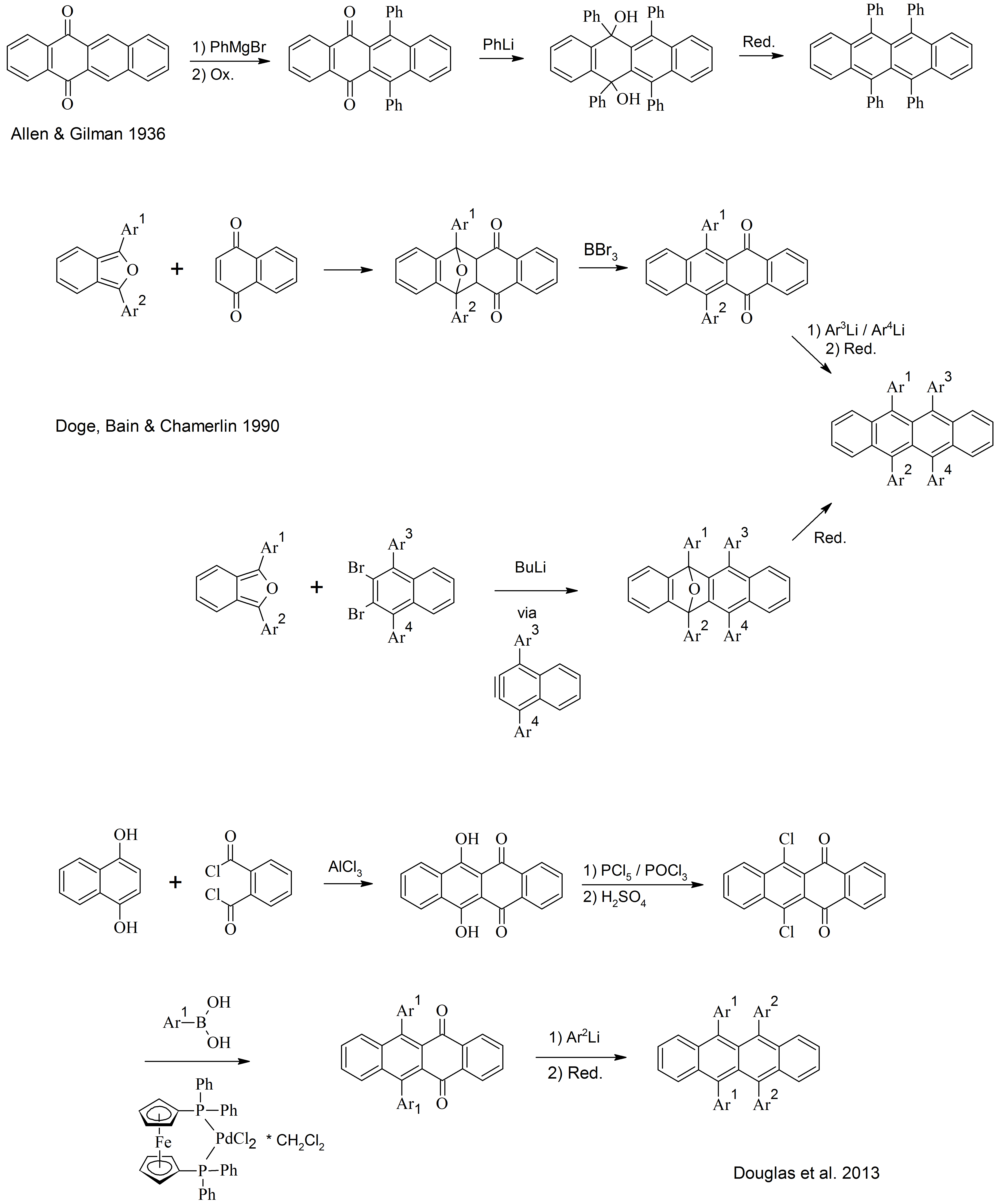 Synthetic routes to substituted rubrenes